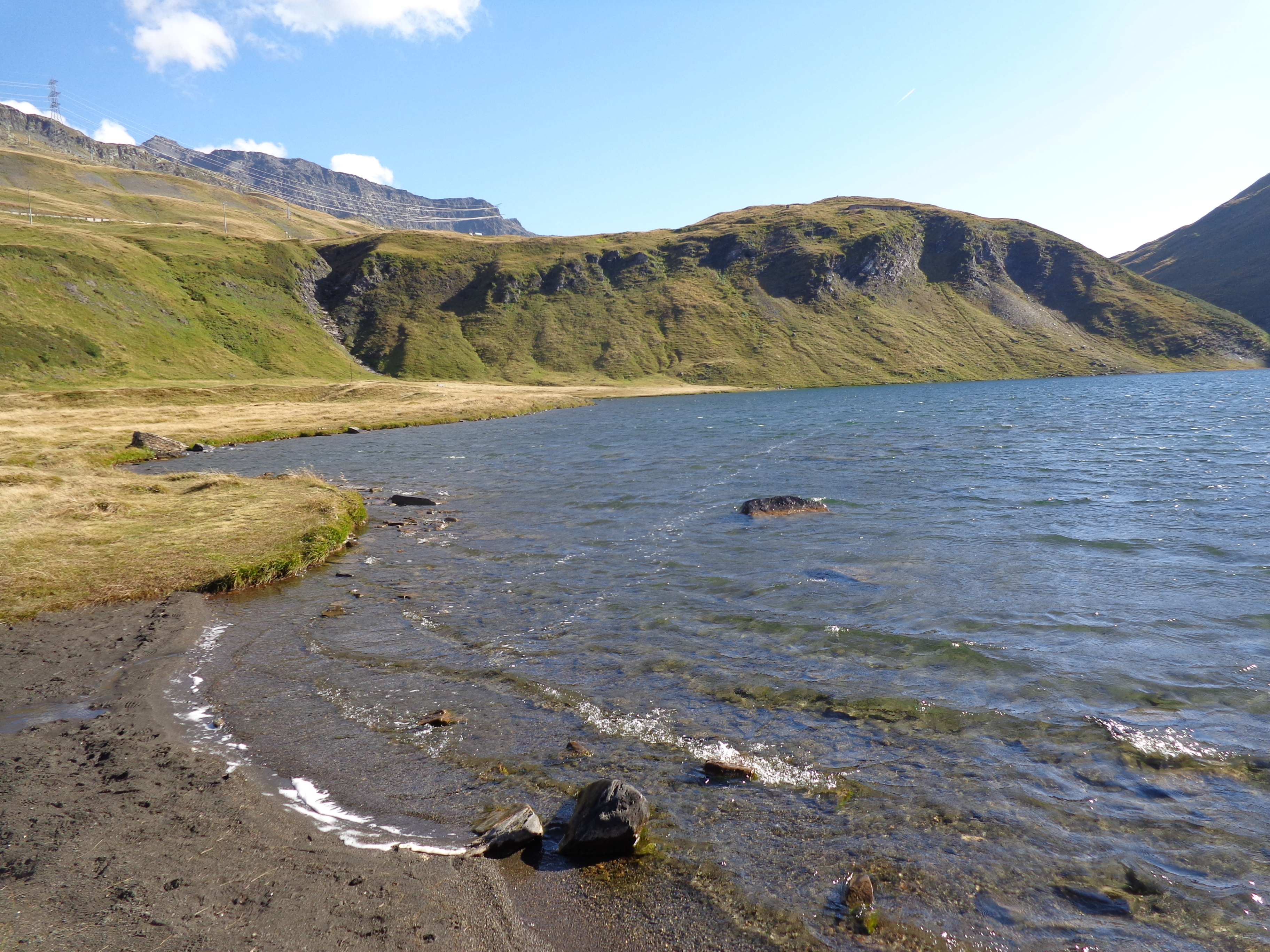 Verney Lake, Aosta Valley, Italy